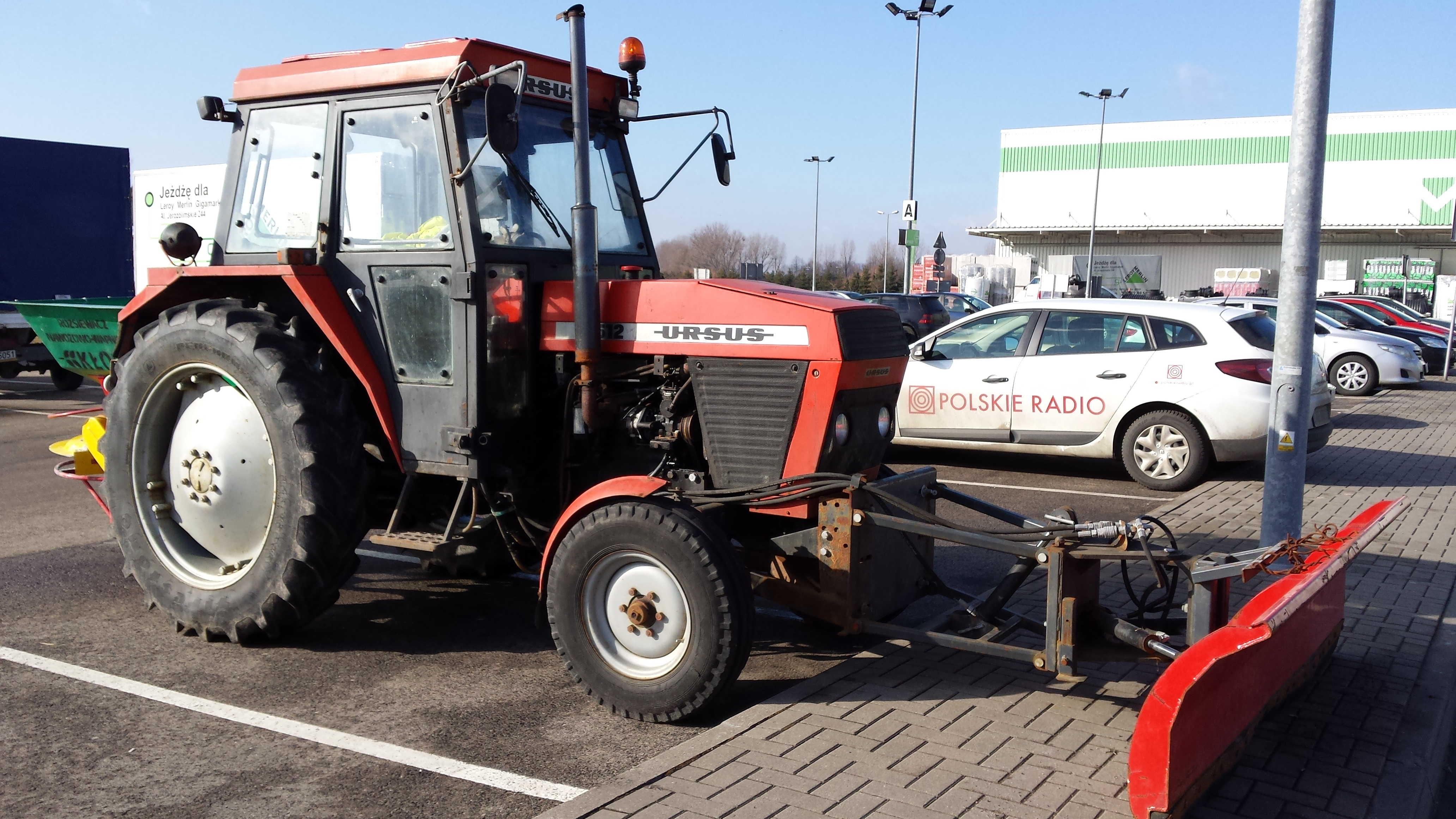 Ursus 4512 tractor (early model) in Warsaw